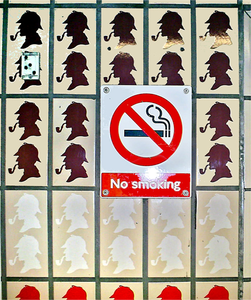 Edited by user dpbsmith to improve tonal range, crop out irrelevant material, reduce image size, and make it a clearer illustration.